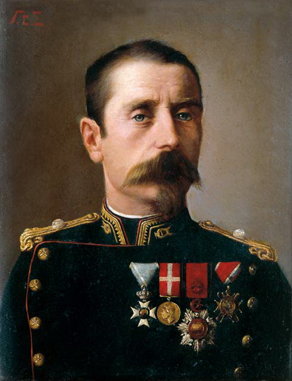 Greek painter Georgios Samartzis (1868-1925). Portrait of military musician Iosif Kaisaris (1889).